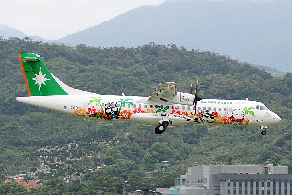 B-17001 ATR 72-600 of UNI Airways in new Badtz Maru scheme. Taipei Songshan. September 15, 2016.